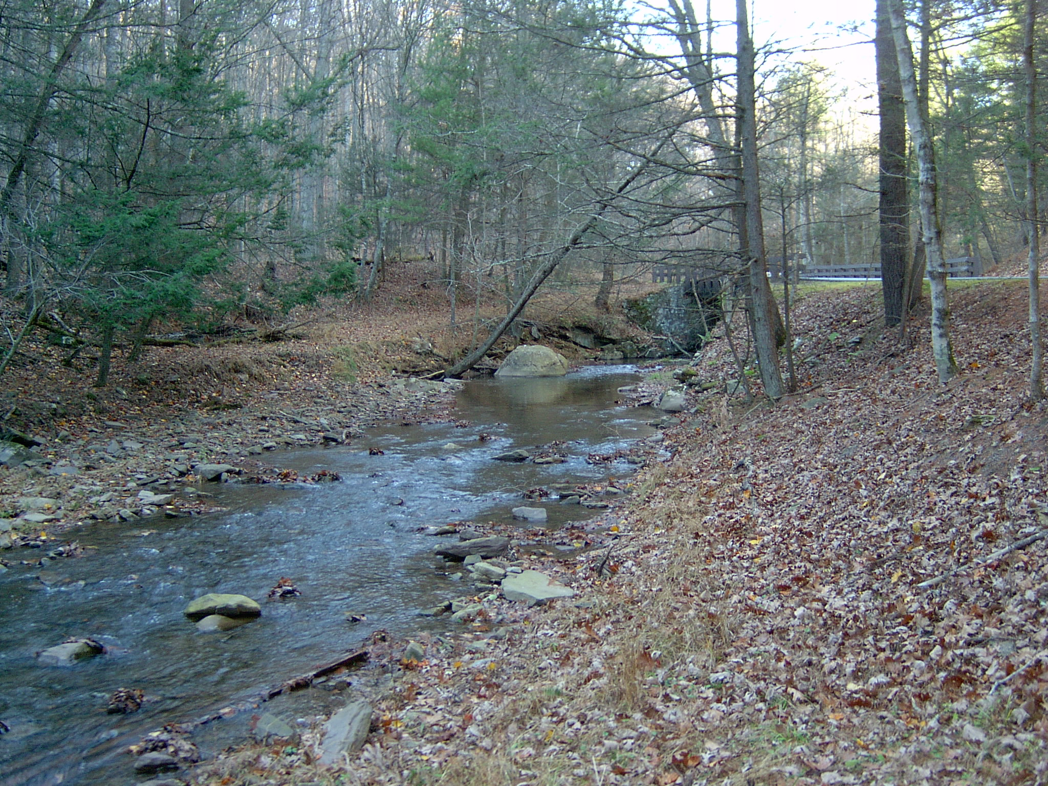 Tributary of Lost River in Lost River State Park, Hardy County, West Virginia. Photo taken on November 6, 2004, by Brian M. Powell.